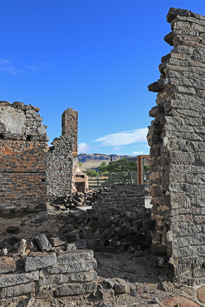 Canyon Creek Station on the Main Oregon Trail, Elmore County, Idaho.